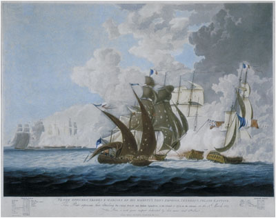 The Battle of Lissa on 13 March 1811; Below the image are tables of French and English forces and the caption reads: TO THE OFFICERS, SEAMEN & MARINES OF HIS MAJESTY'S SHIPS AMPHION, CEREBUS, VOLAGE & ACTIVE., / This Plate represents their Attacking The United French and Italian Squadrons off the Island of Lissa in the Adriatic, on the 13.th March 1811. / This Plate is with great respect dedicated by their most obed.t h.ble Serv.t / London. Published Feb.y 1.st 1812. by R. Lambe. N.o 39. Fleet Street.